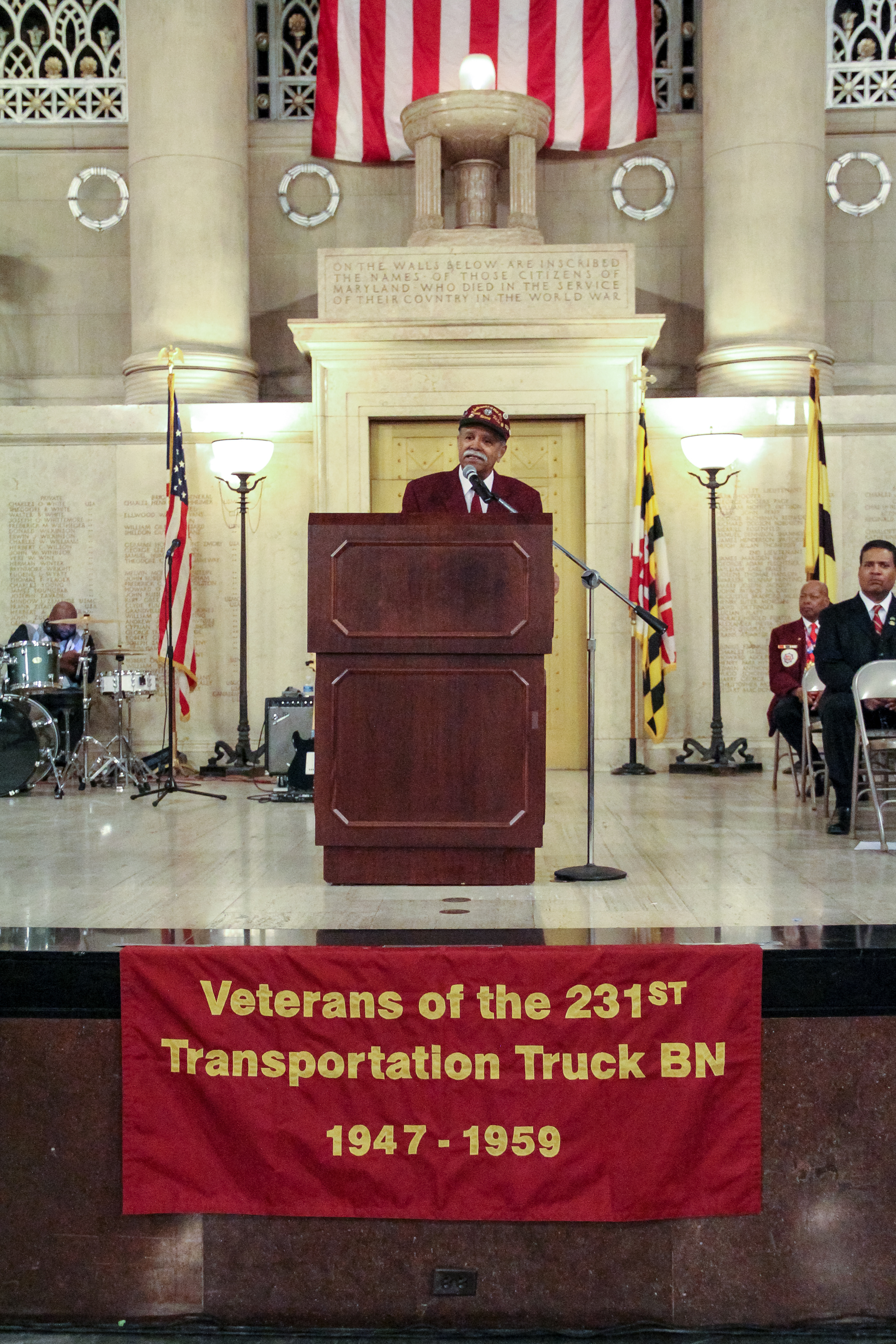 Retired Sgt. 1st Class Louis S. Diggs, Korean War veteran and member of the 231st Transportation Battalion, speaks about the history of the "Monumental City Guards" during the ceremony celebrating the 231st Transportation Truck Battalion's 135th anniversary of their establishment as an all-black independent militia company during a ceremony at the War Memorial in Baltimore city on Feb. 22, 2014. (Photo by Staff Sgt. Michael Davis Jr., 29th Mobile Public Affairs Detachment.)